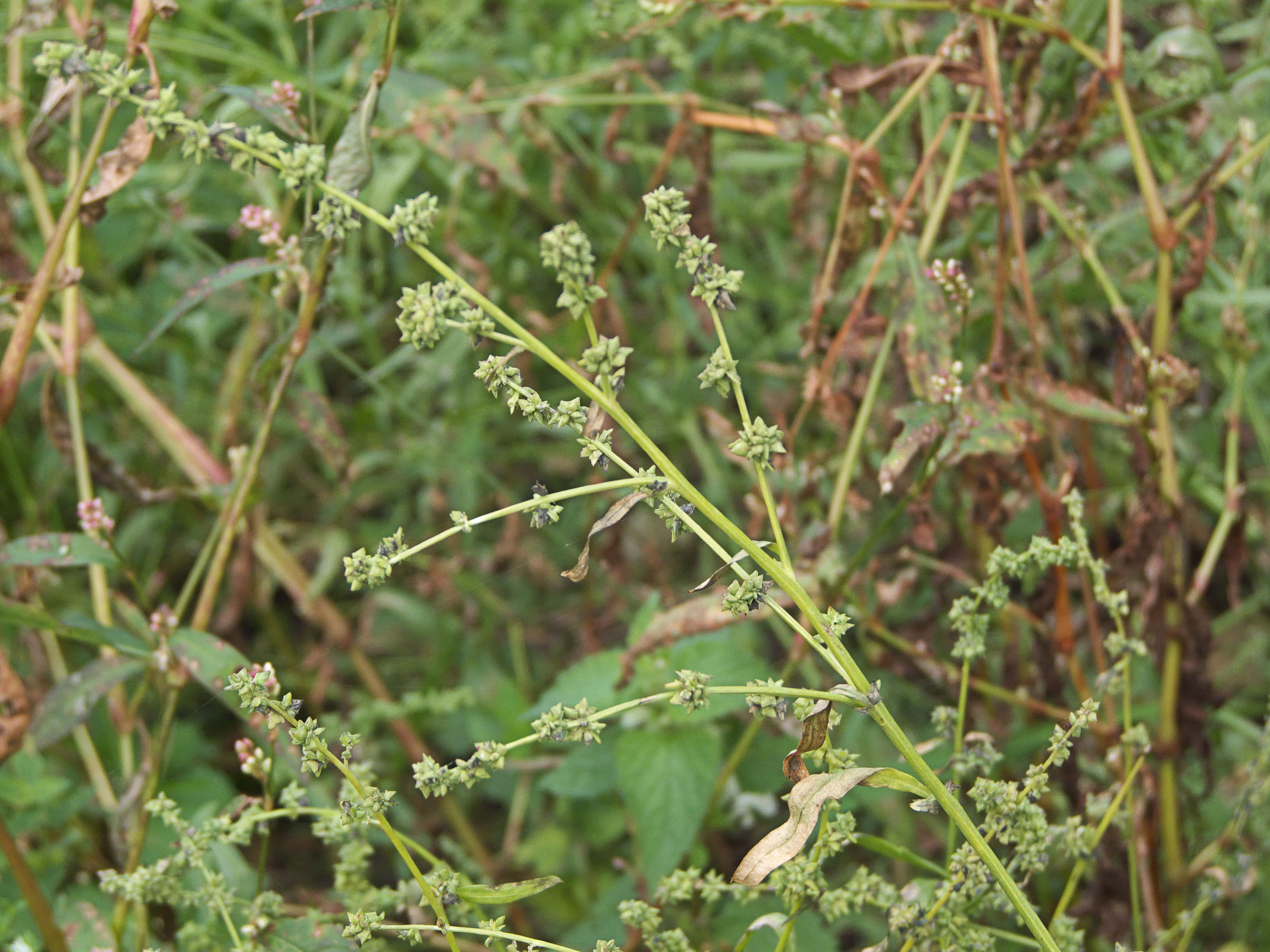 Atriplex patula inflorescence